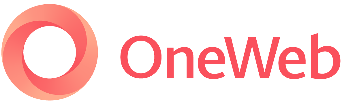 The OneWeb logo